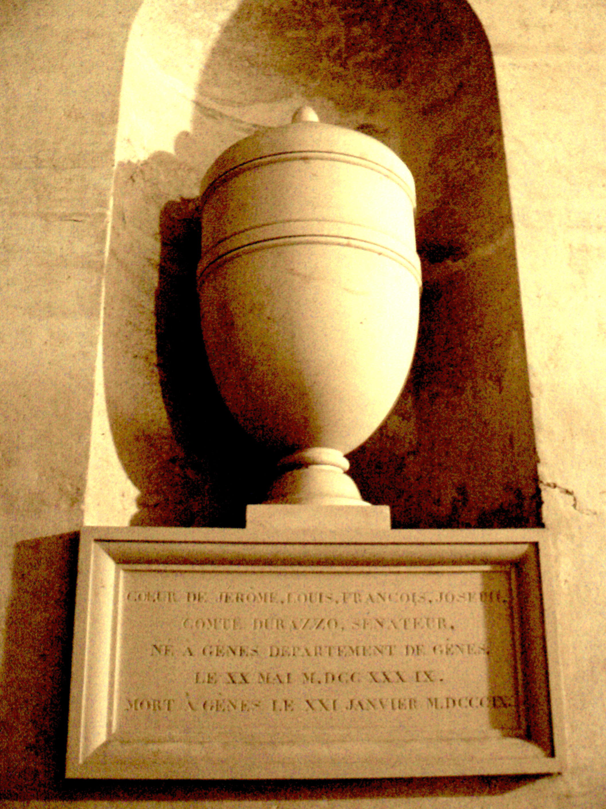 Girolamo Durazzo Urn at Panthéon Paris